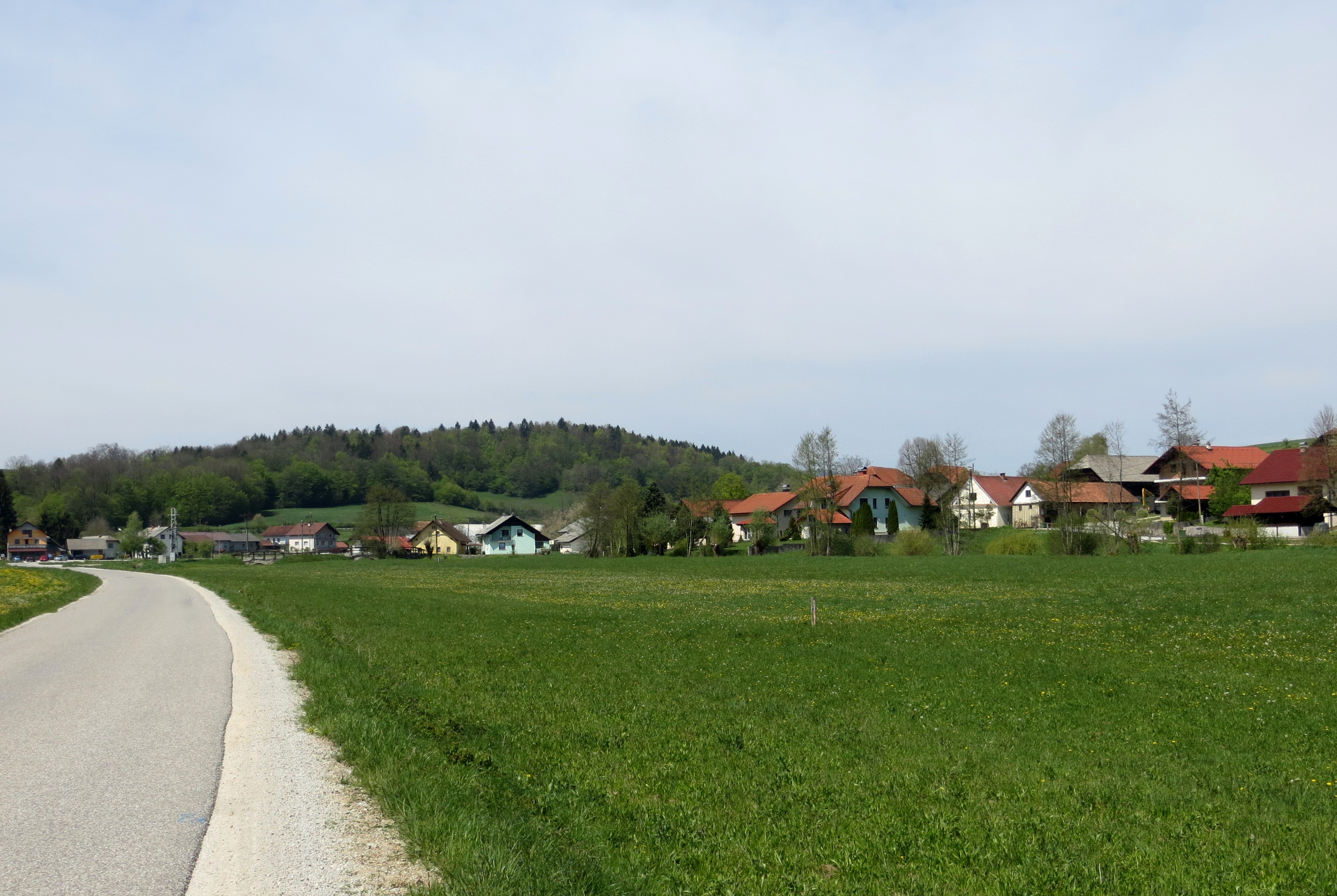 Stranje pri Velikem Gabru, Municipality of Trebnje, Slovenia